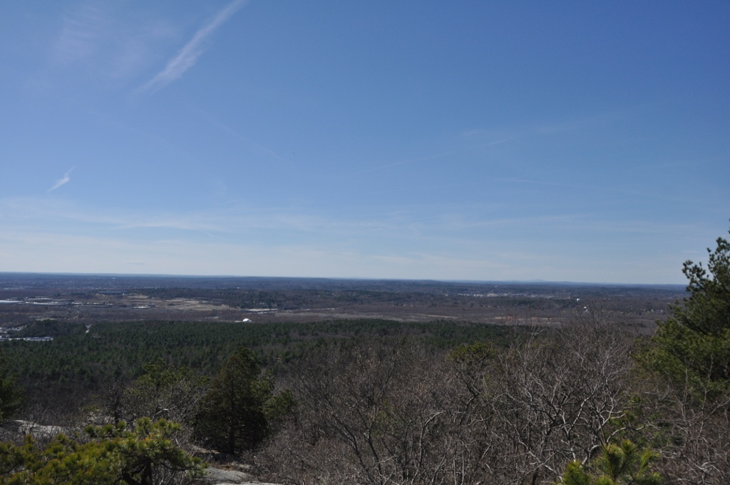 View of Little Blue Hill from Great Blue Hill in the Blue Hills Reservation in Canton, Massachusetts. Beyond Little Blue Hill (but not readily discernible) is the Neponset River. This area is the general location of the prehistoric Green Hill Site.